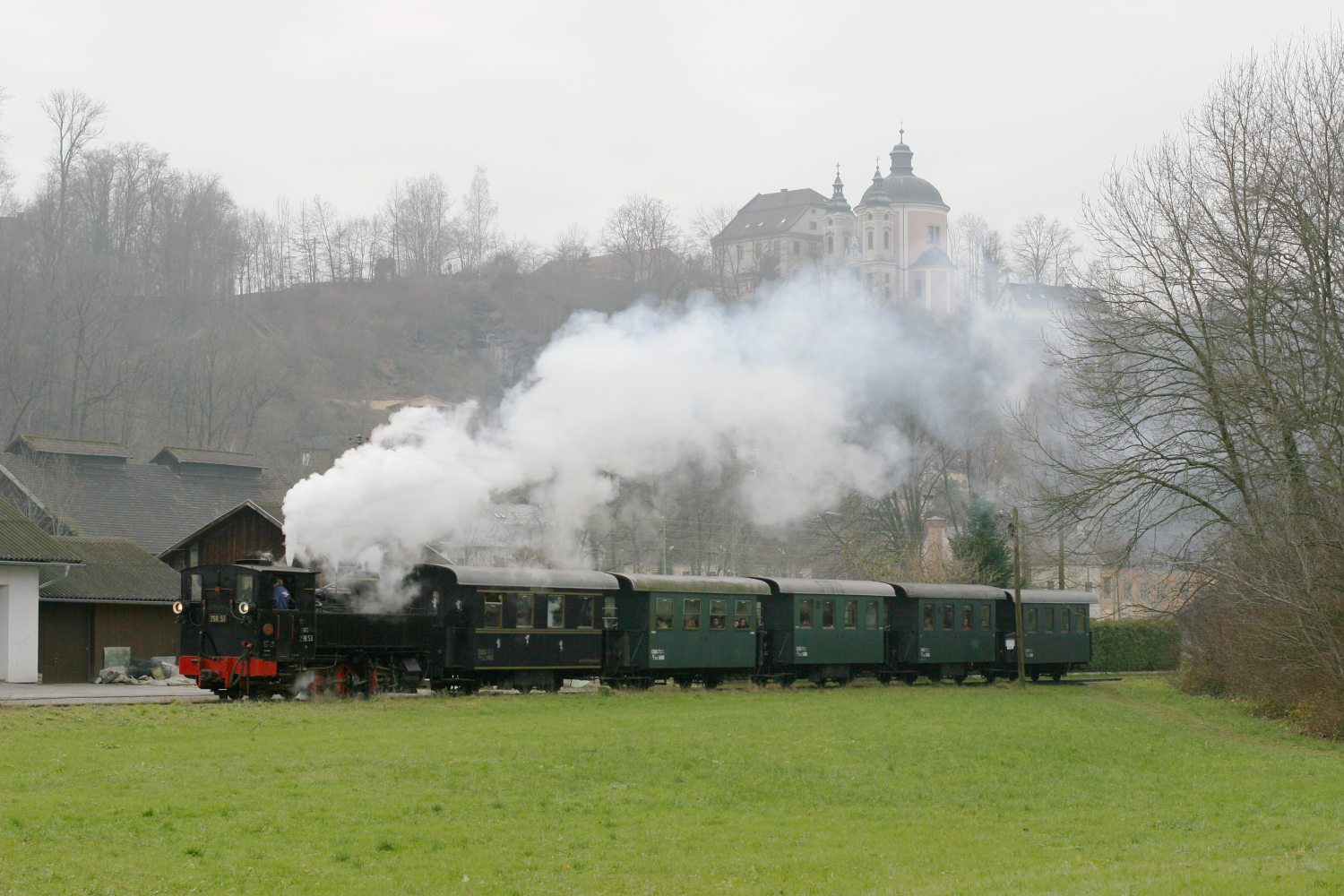 Train of the preserved Steyrtalbahn in Upper Austria passing the pilgrimage church of Christkindl on the outskirts of Steyr.